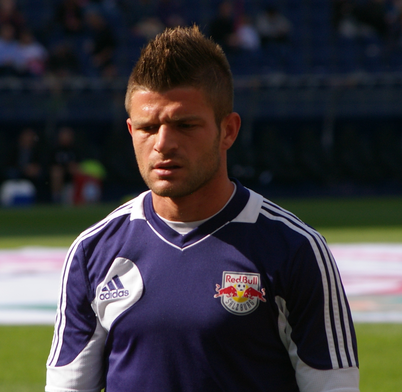 Austrian Bundesliga league match